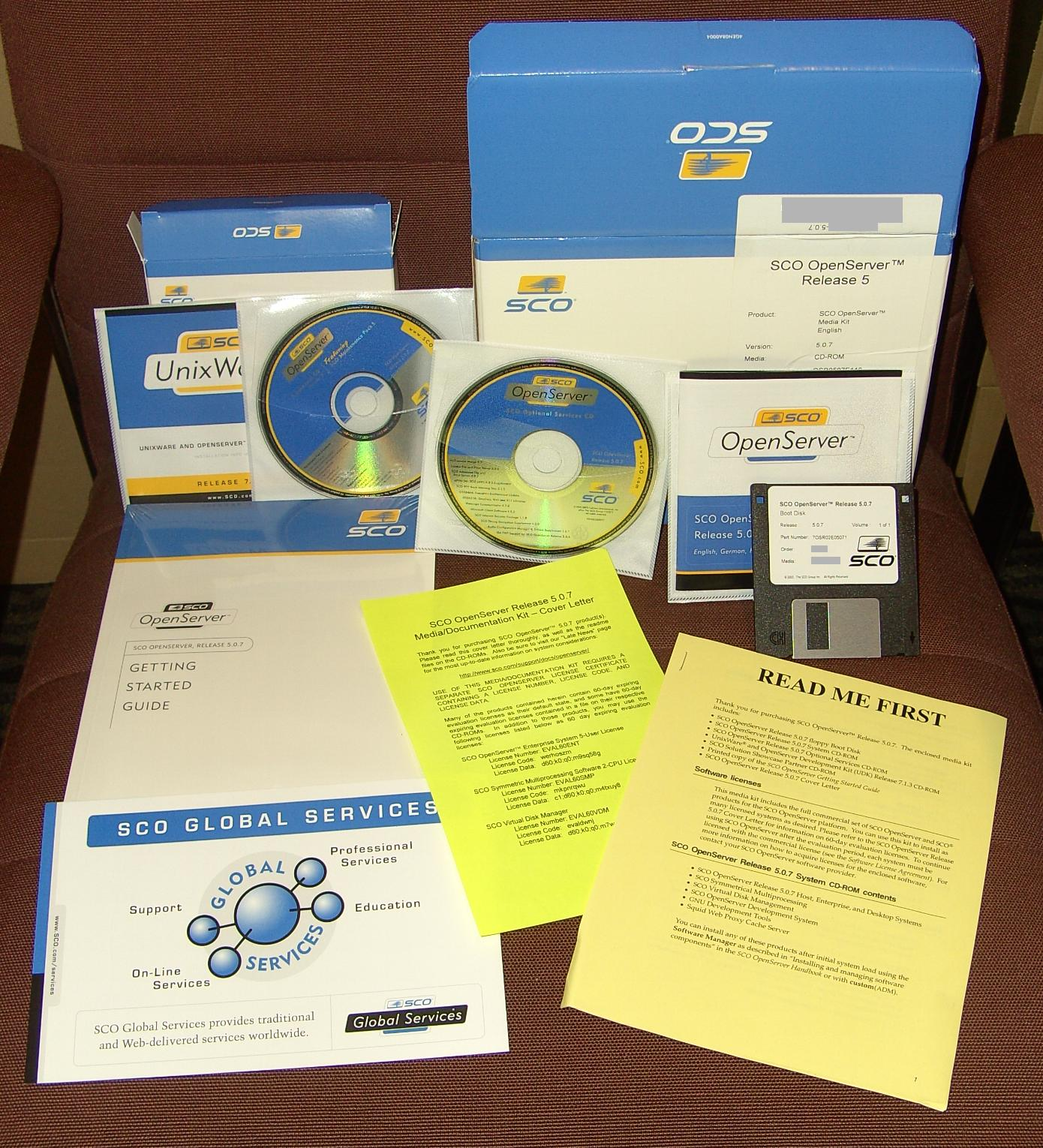 Box set of SCO Group SCO OpenServer Release 5.0.7, showing media CDs and 3.5" floppy disk (boot disk). Identifying serial numbers have been obscured.